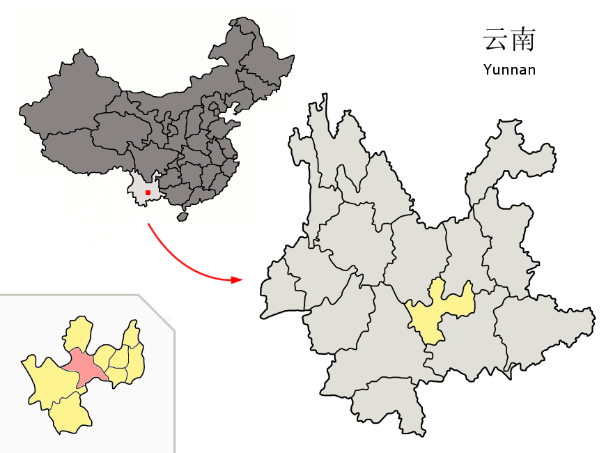 Location of Eshan County (pink) and Yuxi Prefecture (yellow) within Yunnan province of China Map drawn in september 2007 using various sources, mainly : Yunnan province administrative regions GIS data: 1:1M, County level, 1990 Yunnan Counties map from